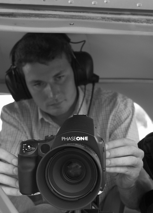 Aerial photographer in a Cessna 206 aircraft. An aerial photographer in the removed rear door of a Cessna 206.